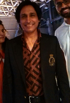 Pakistan Super League #PSLt20 Cricket #AbkhelKDikha Ramiz Raja